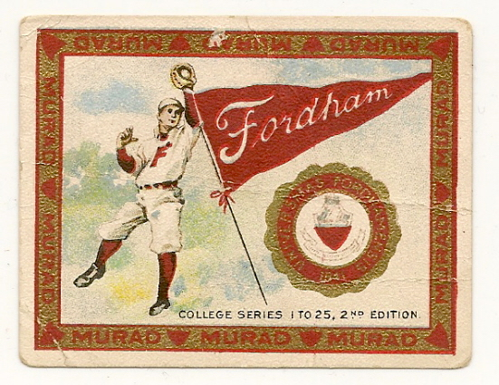 Murad Cigarette card